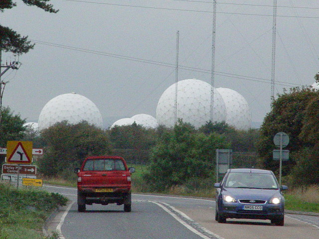 RAF Menwith Hill. At the side of the busy A59